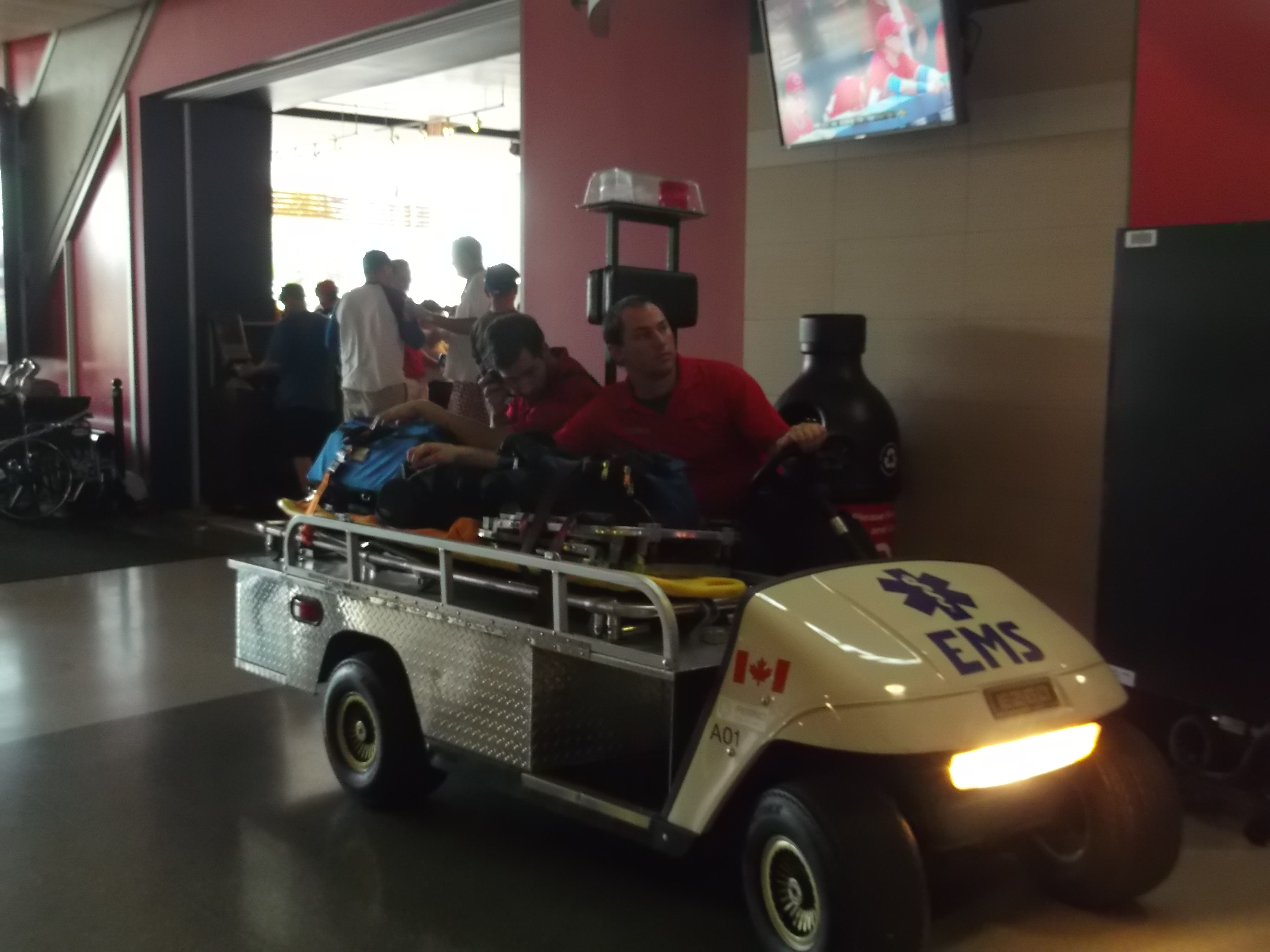 Toronto EMS respond to a call in the Rogers Centre